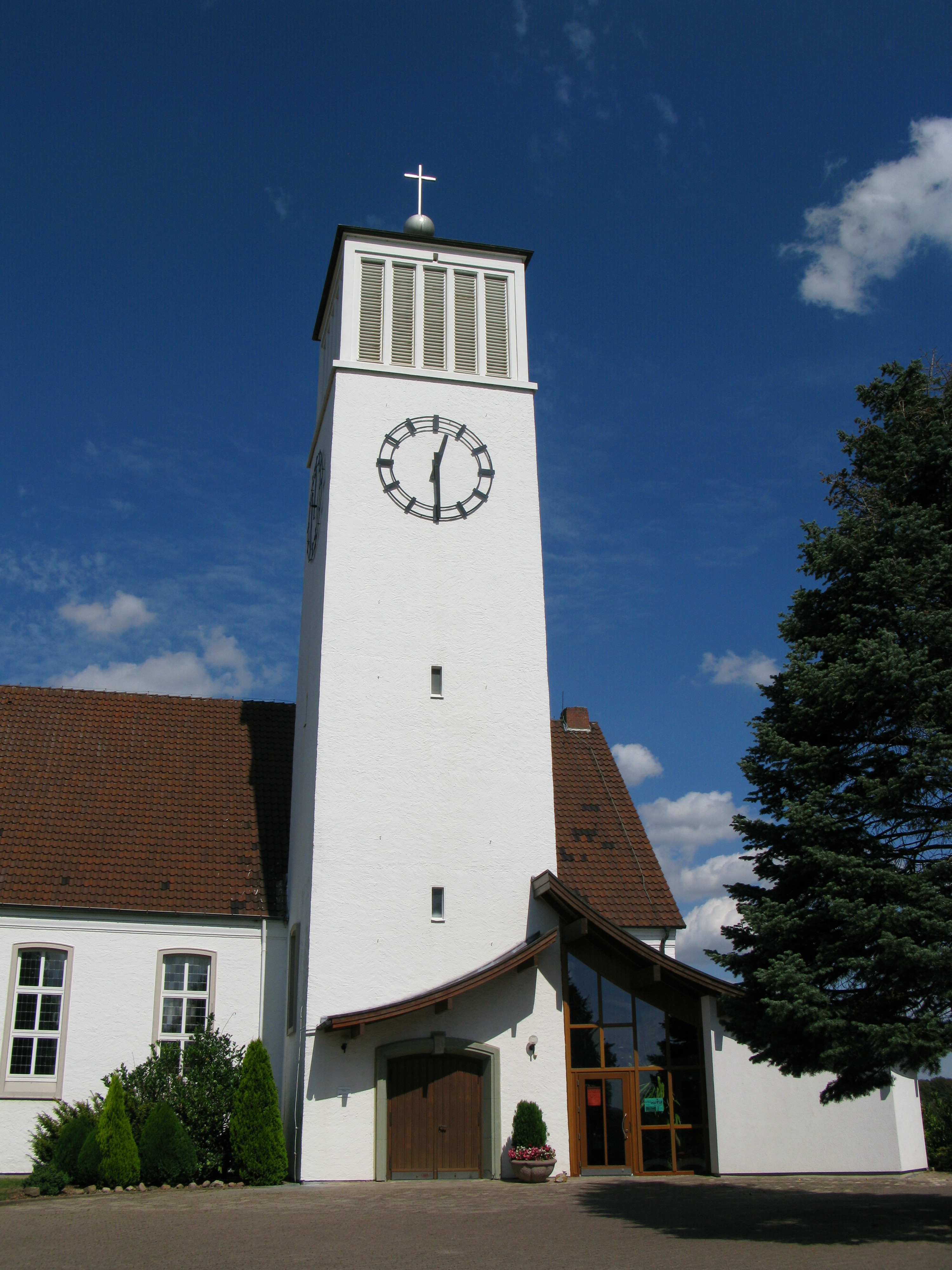 Reformed Church of Sylbach, Lippe, Germany